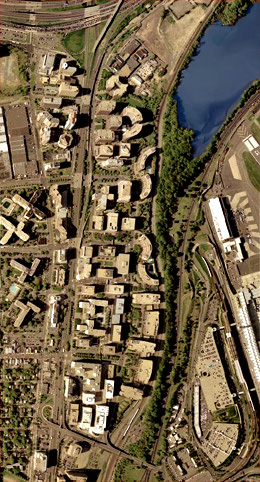 Color-modified satellite image of Crystal City in Arlington County, Virginia.